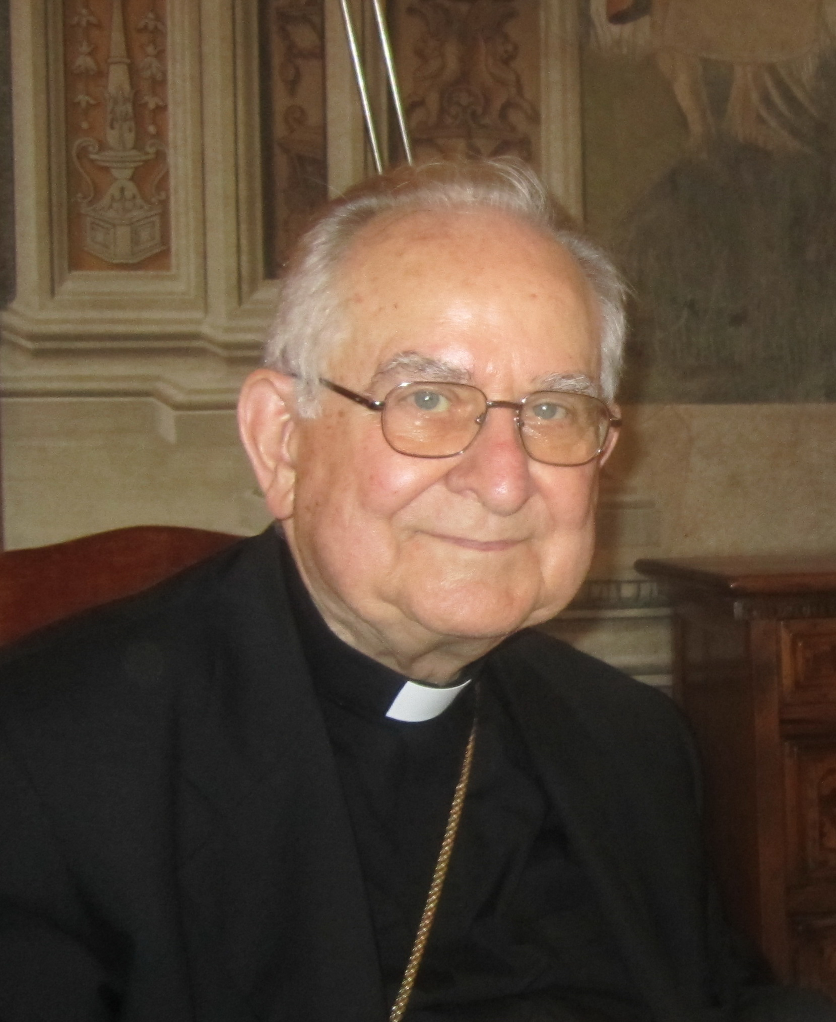 Archbishop Antonio Franco. Apostolic Nuncio Emeritus of Israel. Assesor of the Order of the Holy Sepulchre